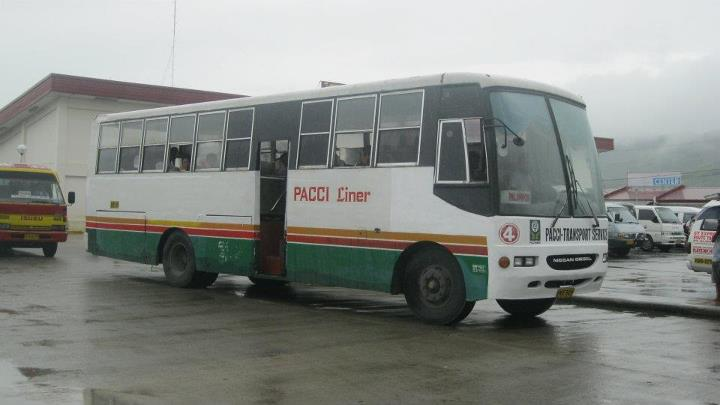 Buses are used for long distance transportations at any point in Region VIII.